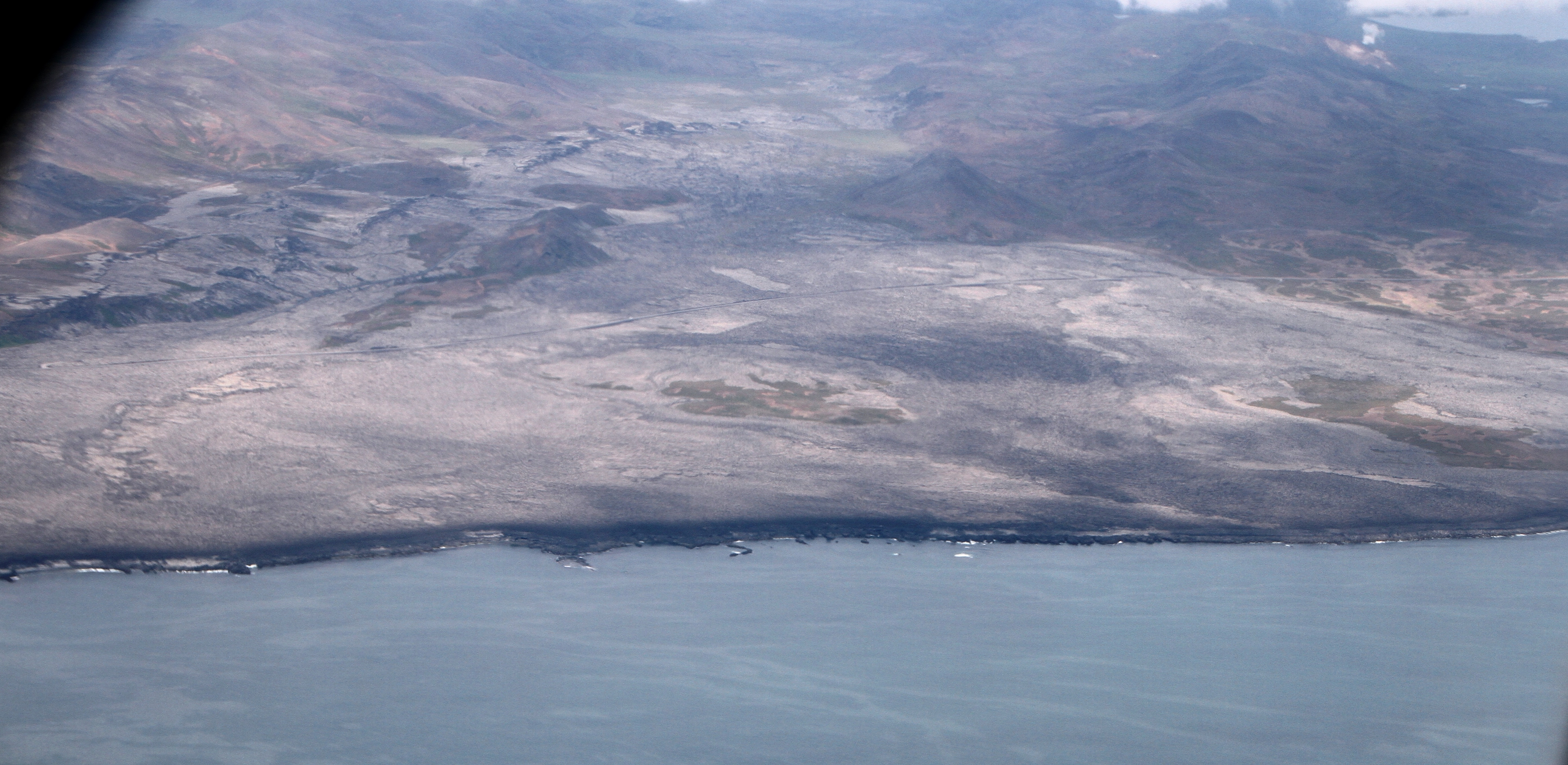 Aerial view of southwestern Iceland.